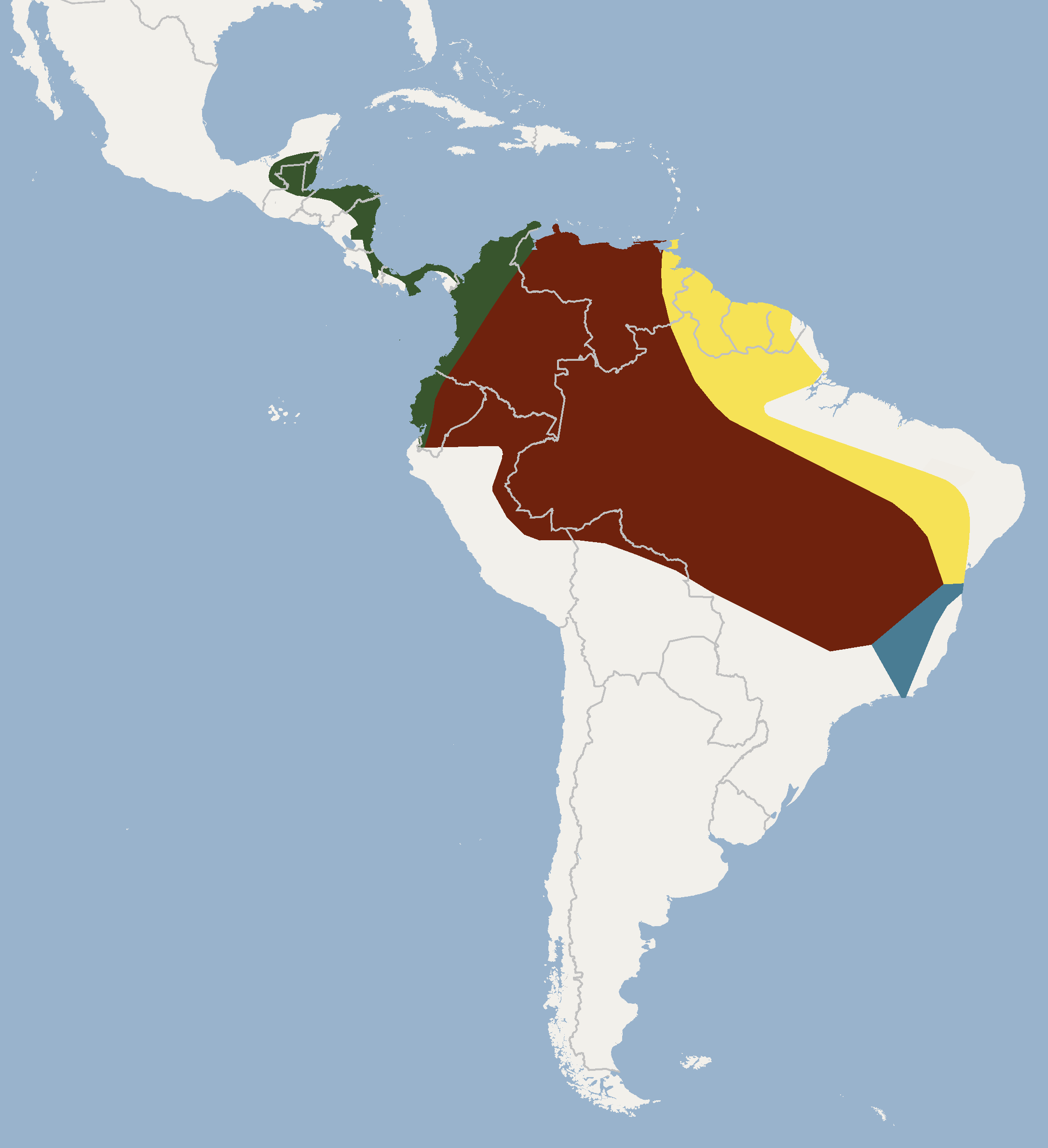 Geographical distribution of Mimon crenulatum according to Gardner, 2008 M.c.crenulatum M.c.keenani M.c.longifolium M.c.picatum